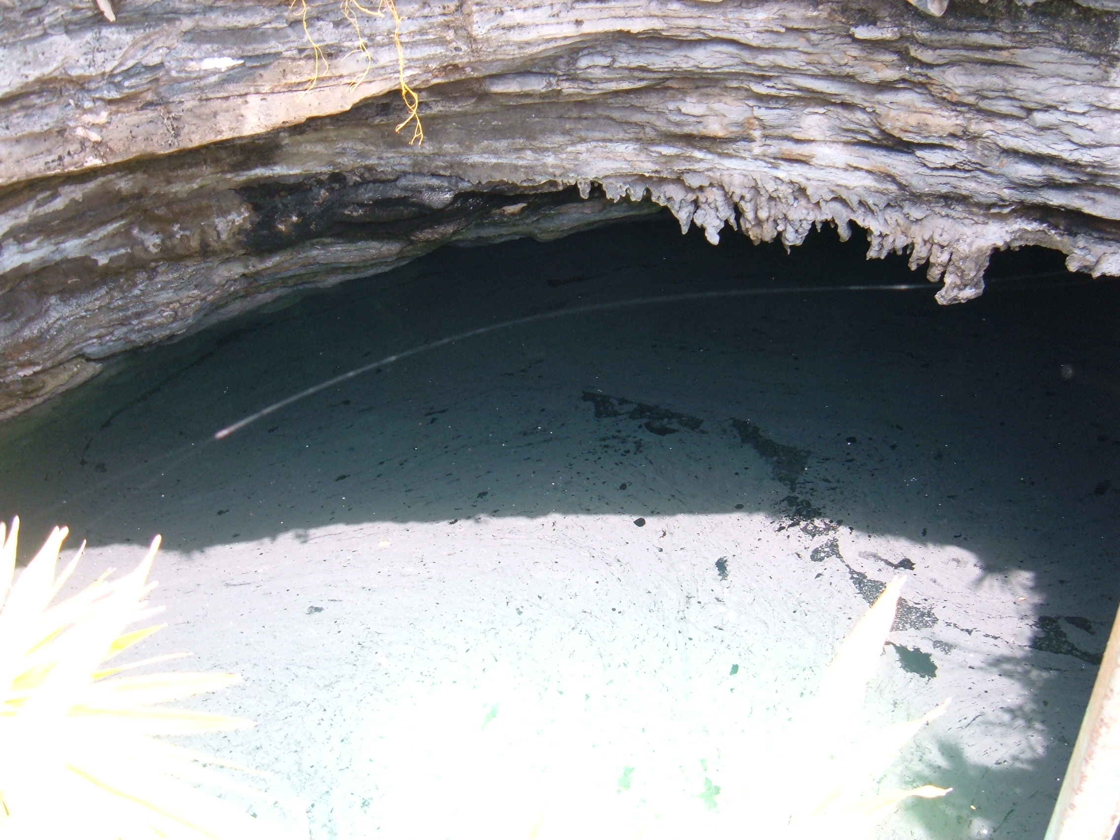 A blue hole in Lucayan National Park in Grand Bahama Island.